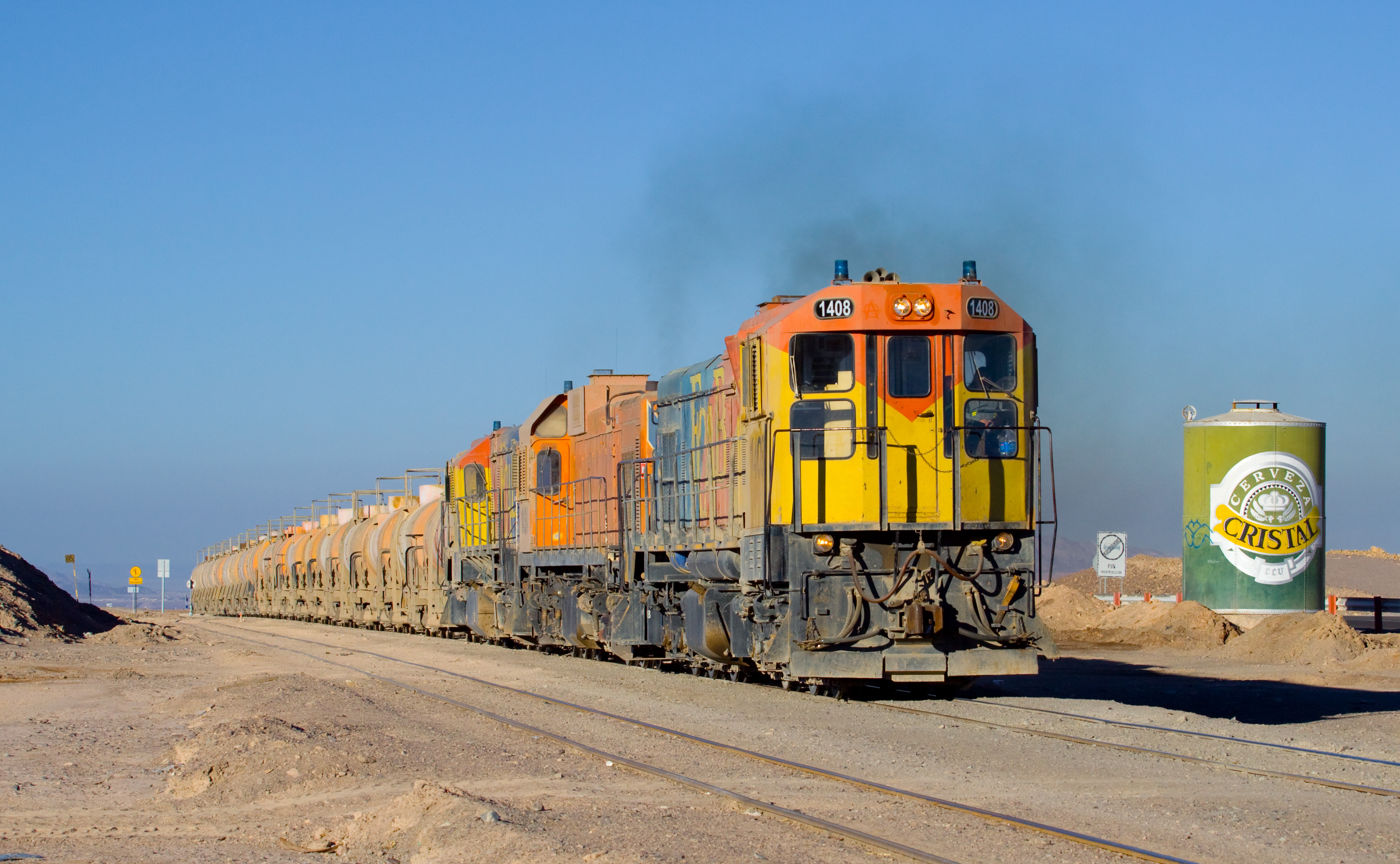 EMD GR12UD 1408, Clyde G22 1434 and EMD GR12U 1402 passing a big can of beer in the Atacama desert on their way to Calama. Between Sierra Gorda and Cerritos Bayos, Chile.